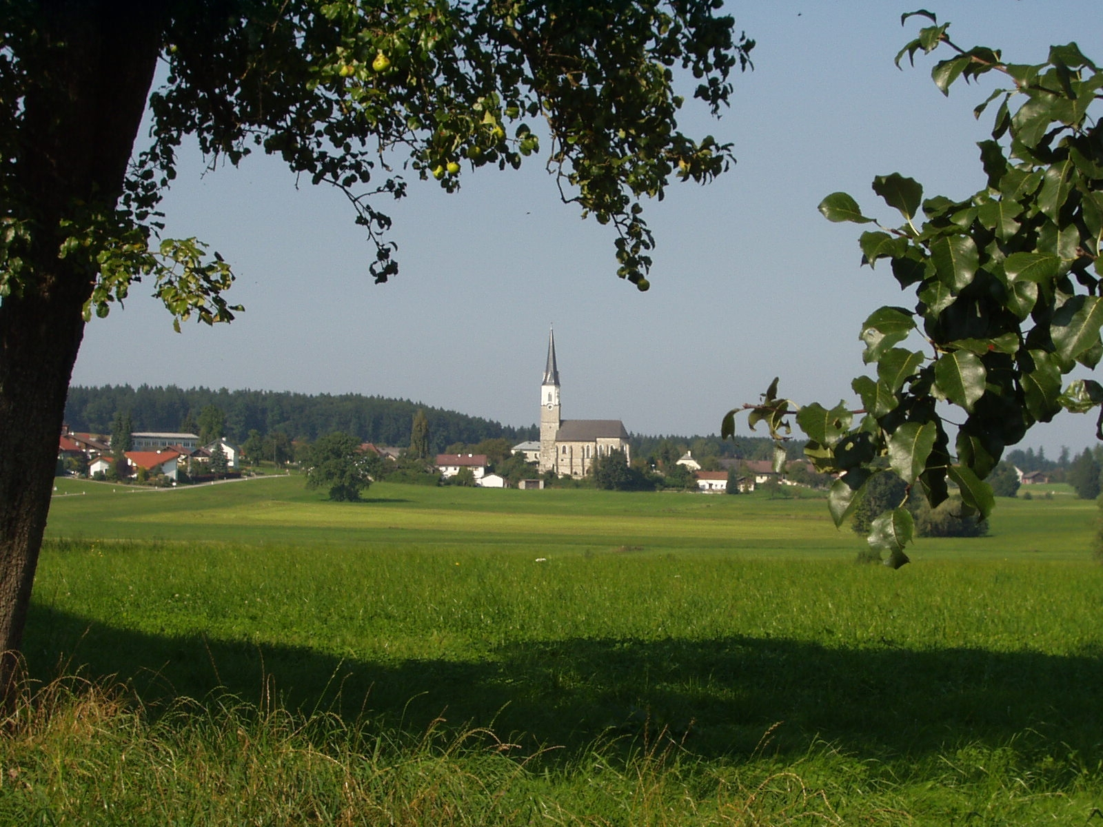 Haigermoos (view from Weyer), Upper Austria Photograph by Gakuro